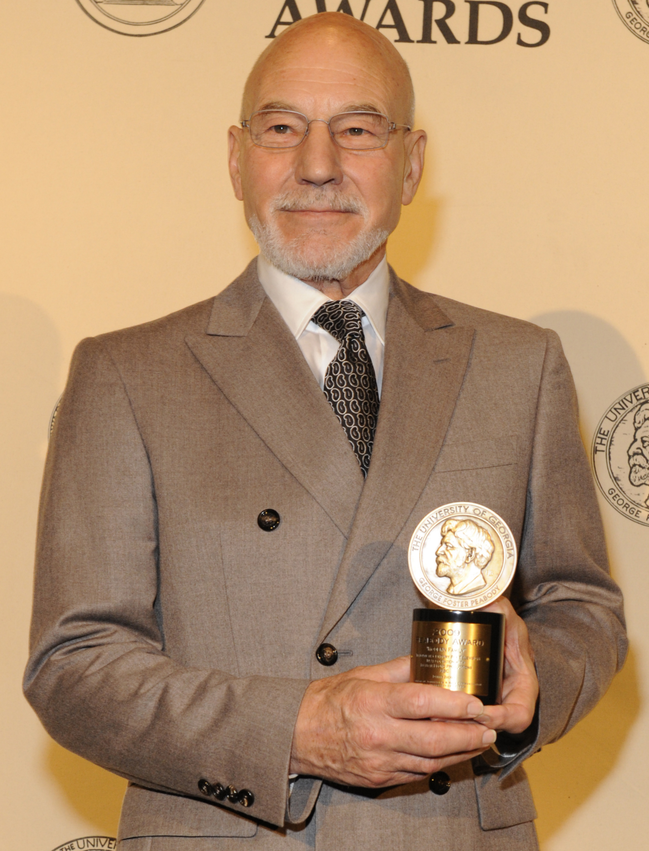 Patrick Stewart at the 71st Annual Peabody Awards Luncheon 2012.